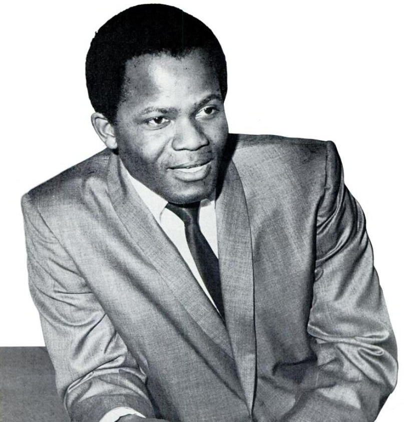 Trade ad for Joe Tex's single "Hold What You've Got".To better adapt it to his respective Wikipedia article, the ad was cropped and cleaned in a graphics editing program. The original can be viewed at the source below.